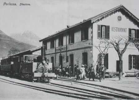 Porlezza railway station